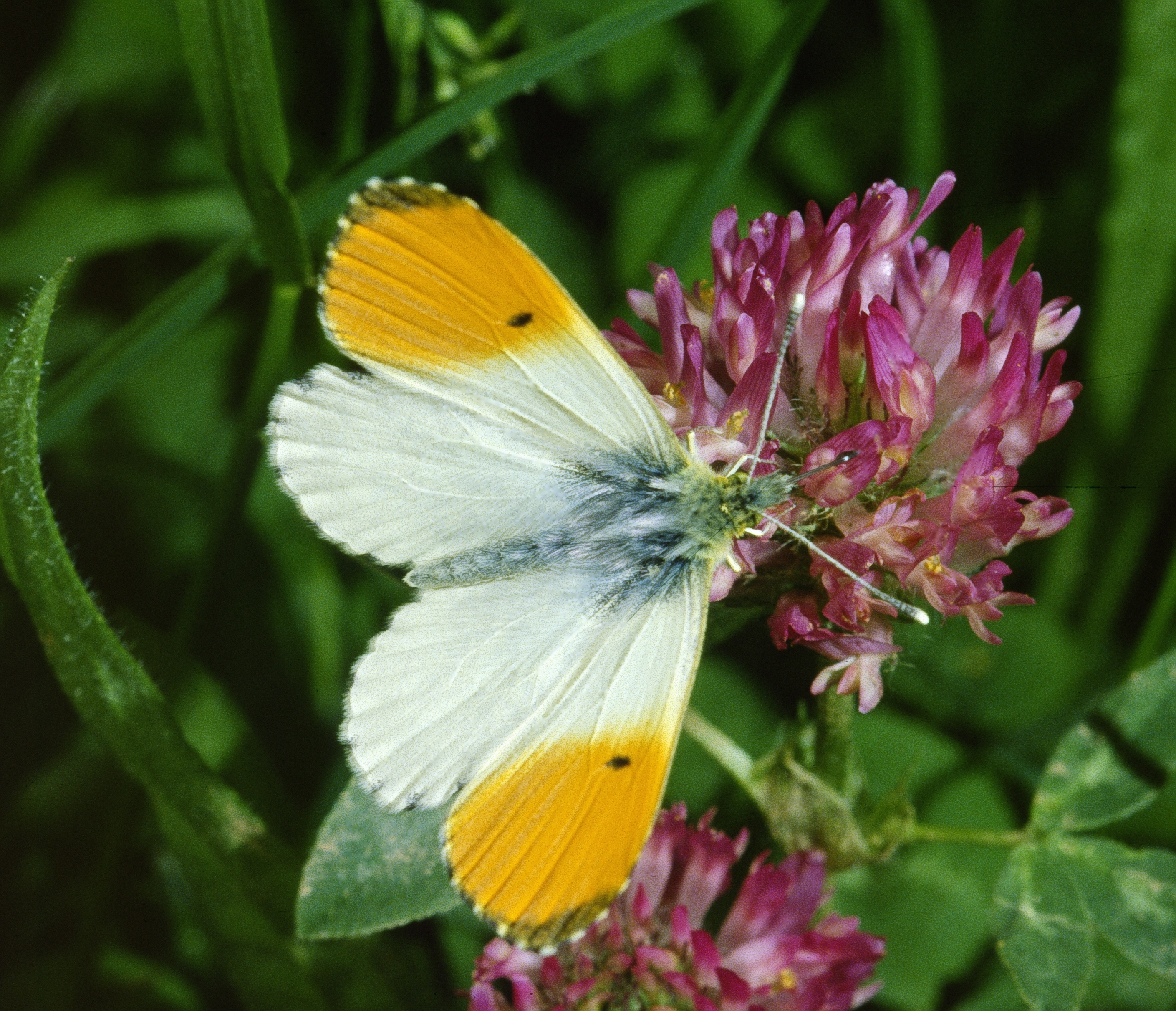 Anthocharis cardamines (mâle)